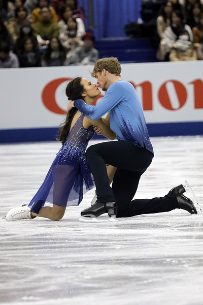 Madison Chock and Evan Bates at the 2017 Grand Prix Final